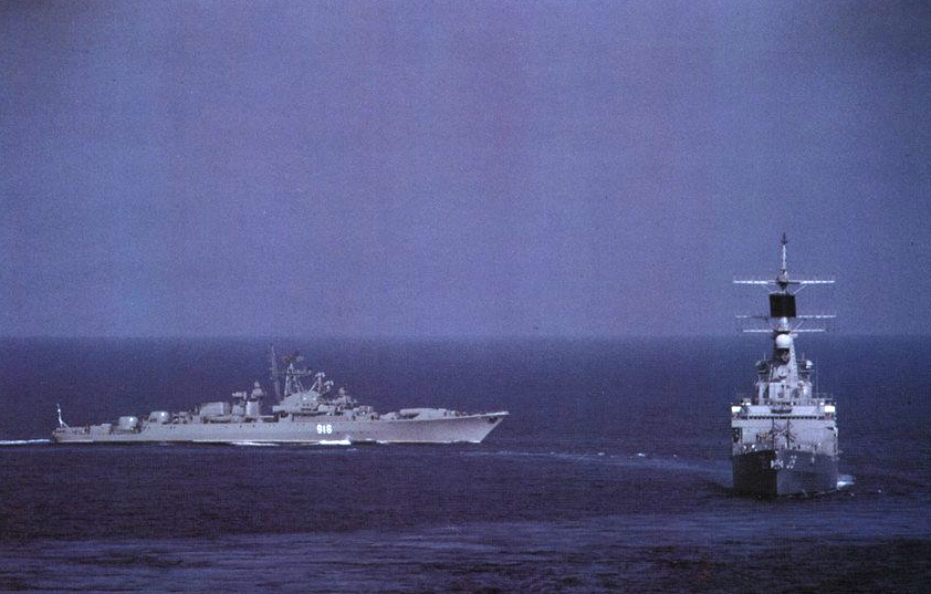 The Soviet Navy Bessmennyy-class frigate Rezvyy (NATO reporting name "Krivak II") and the U.S. Navy guided missile cruiser USS Texas (CGN-39) in the Mediterranean Sea.